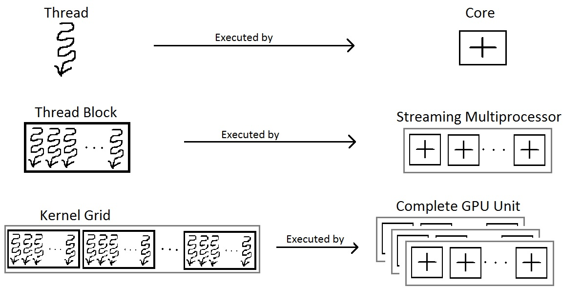 An illustration of a thread block from a software perspective.